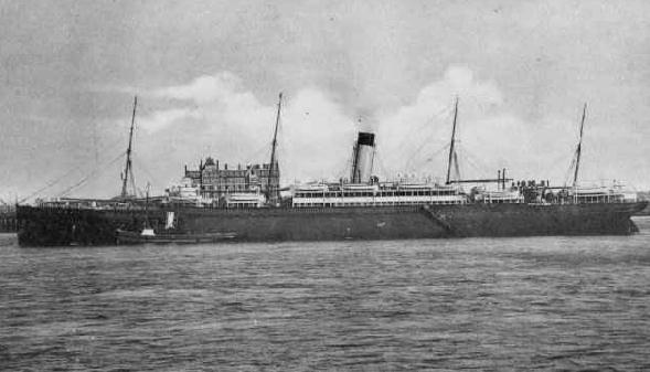 SS Corinthic